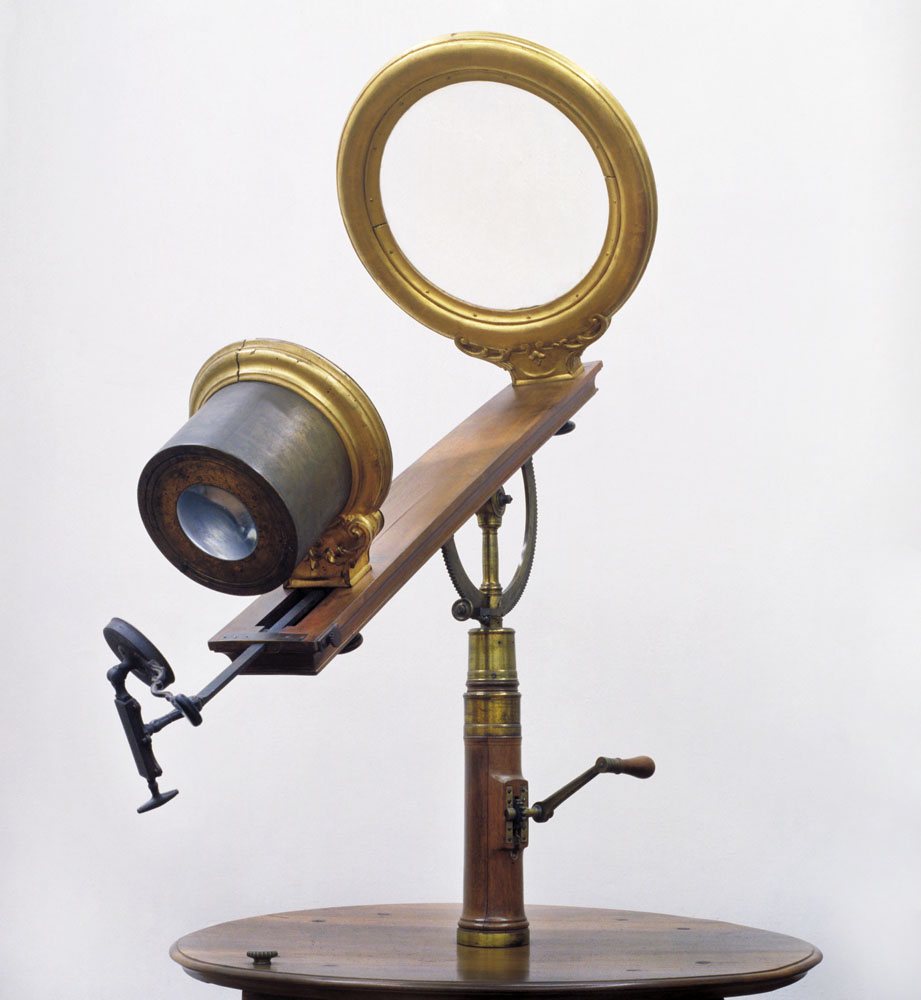 AuthorBenedetto Bregans (lens), Francesco Spighi, Gaspero Mazzeranghi (mount)Description